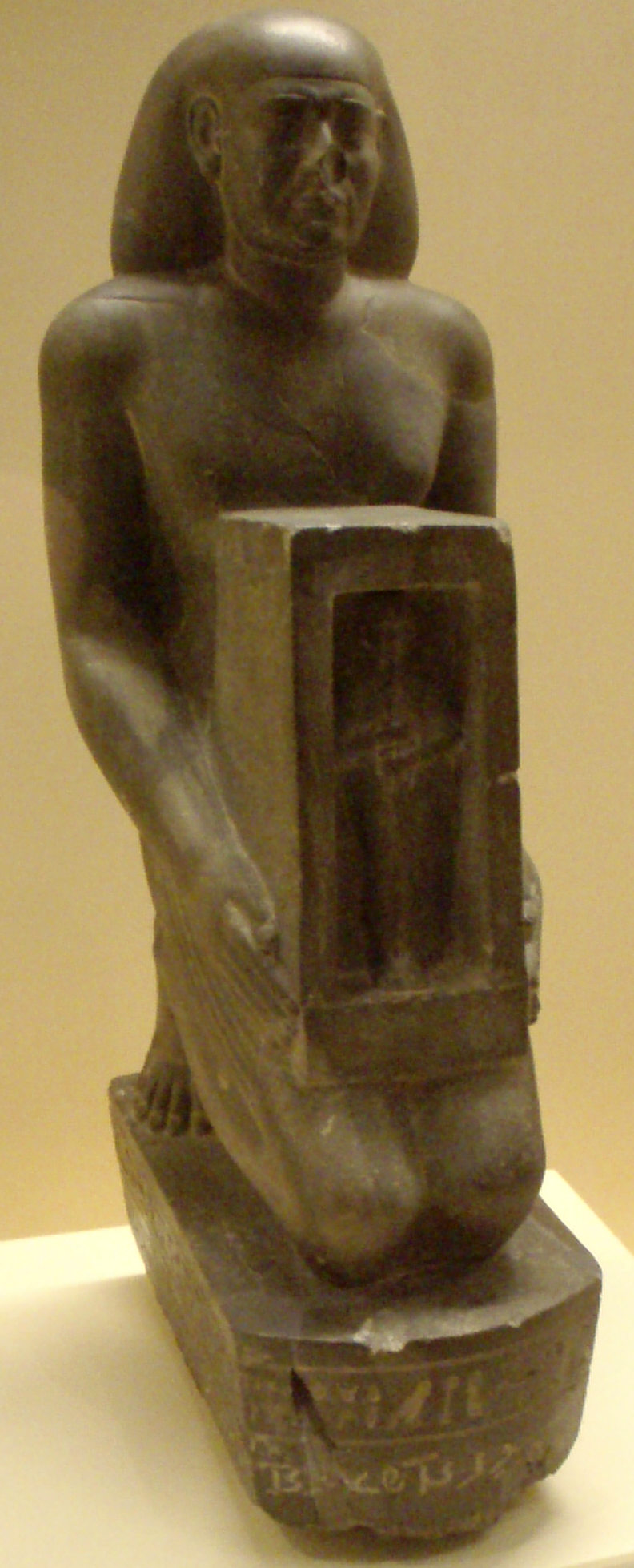 Statuette of the royal scribe Bokennenife, holding an image of the god Ptah. The original dedication in hieroglyphics is Bokennenife's, and the demotic text that appears afterward is from a later person re-dedicating the figure for their own purpose. Figure is made of Greywacke, from Saqqara, 27th dynasty, circa 500 BC. The Demotic Text is in Register 2-(row 2), below the hieroglyph text-(the photo is High-res Expandible).